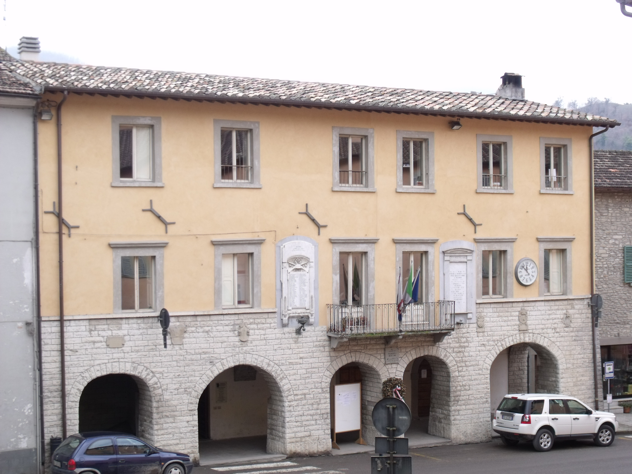 Townhall of Sestino, Province Arezzo, Tuscany, Italy